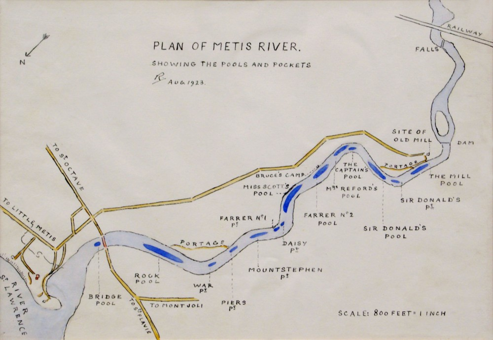 Plan of Metis River, showing the pools and pockets